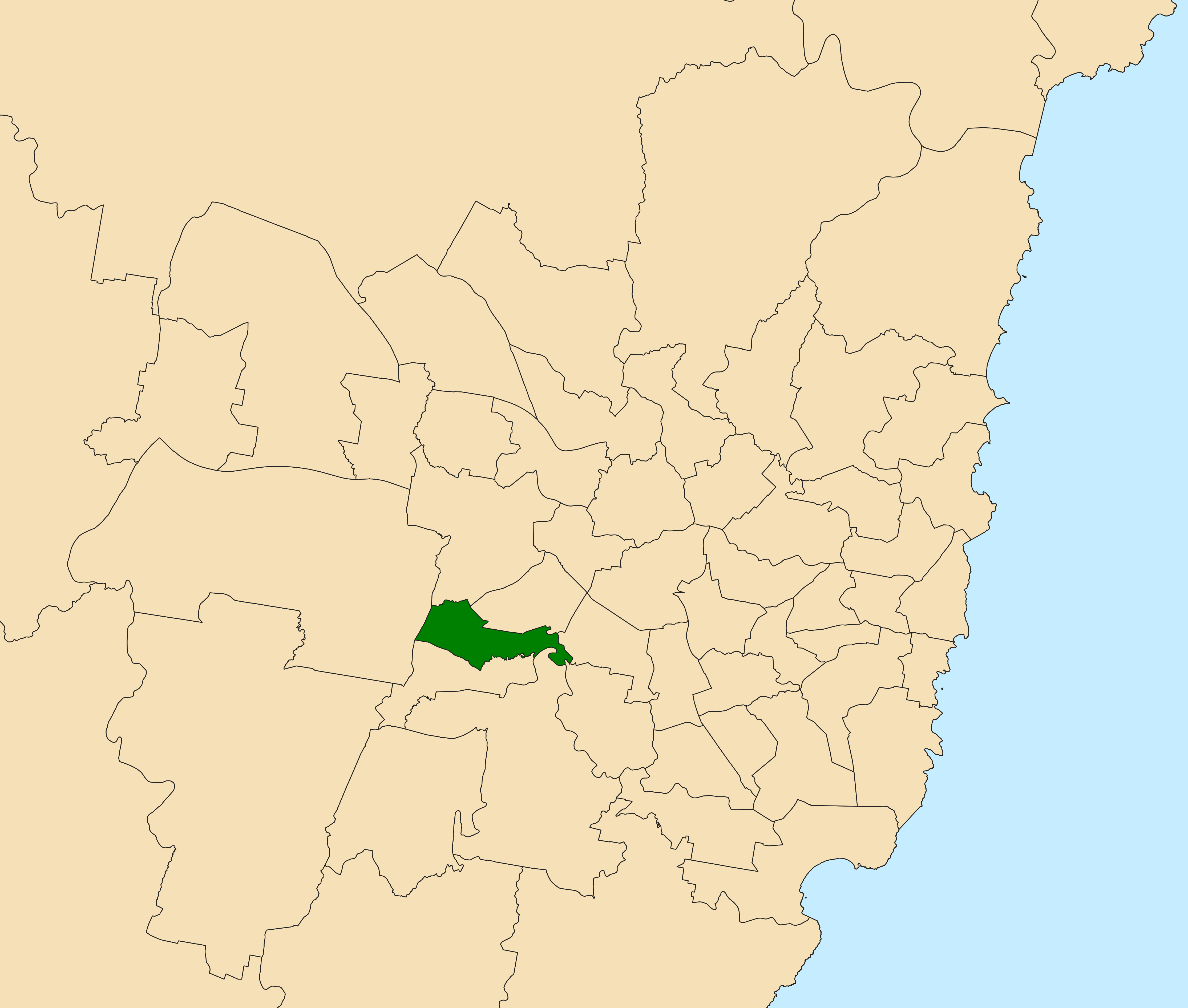 Location of the state electoral district of Cabramatta (dark green) in the metropolitan Sydney area as of the 2019 New South Wales state election. Incorporates or developed using Administrative Boundaries ©PSMA Australia Limited licensed by the Commonwealth of Australia under Creative Commons Attribution 4.0 International licence (CC BY 4.0).